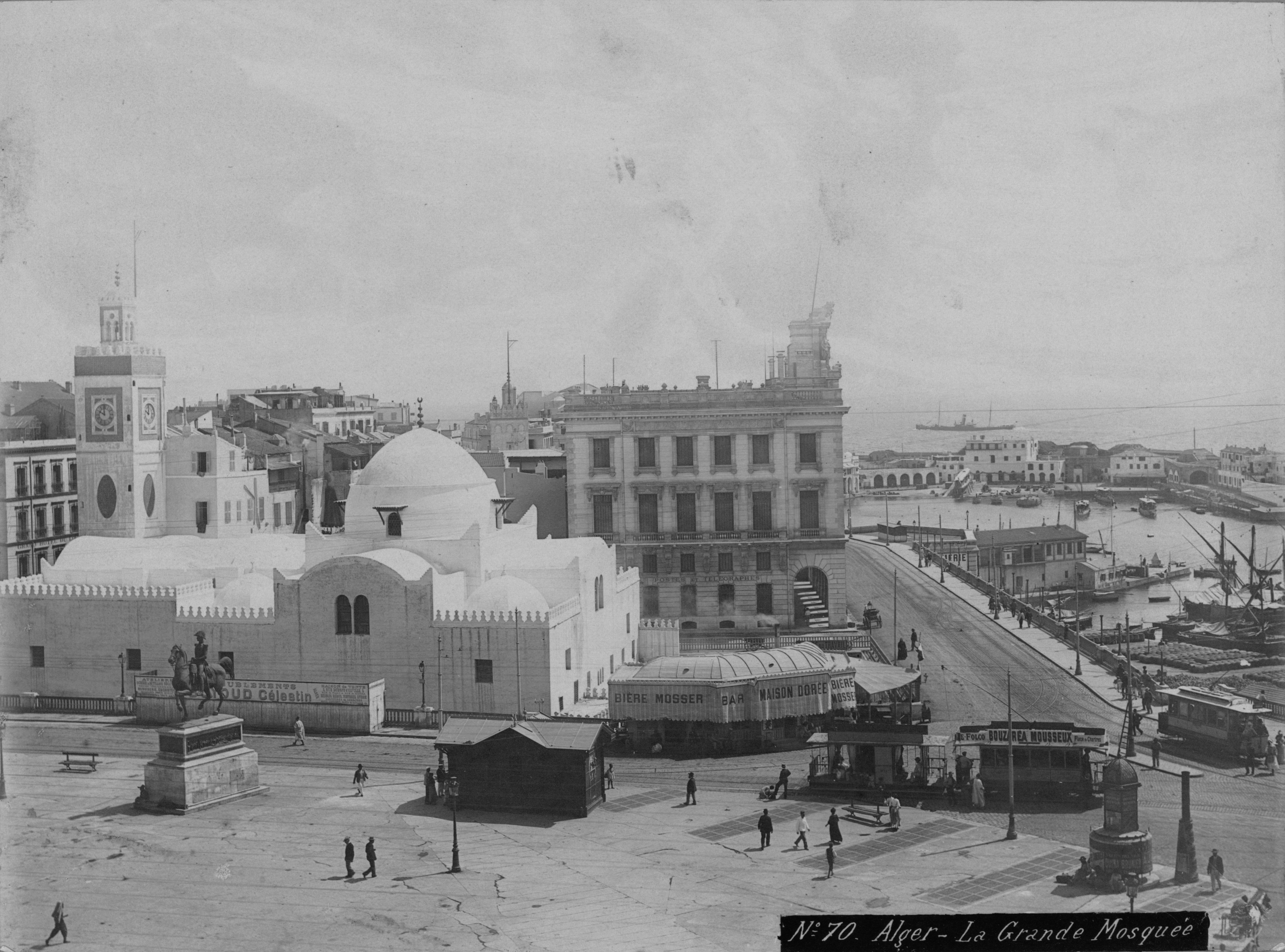 New Mosque (Jamaa el-Jedid) Jamam al-Jdid in Algiers - late 1800s TITLE: Alger - La Grande Mosqueé CALL NUMBER: LOT 13560-2, no. 36 [P&P] REPRODUCTION NUMBER: LC-DIG-ppmsca-04968 (digital file from original) No known restrictions on publication in the U.S. Use elsewhere may be restricted by other countries' laws. For general information see "Copyright and Other Restrictions..." ( SUMMARY: People, a bar, and a street railroad near the New Mosque (Jamaa el-Jedid) in Algiers, dock and harbor in background. MEDIUM: 1 photographic print. CREATED/PUBLISHED: [between 1860 and 1900] FORMAT: Photographic prints 1860-1900. REPOSITORY: Library of Congress Prints and Photographs Division Washington, D.C. 20540 USA DIGITAL ID: (original) ppmsca 04968 CARD #: 2004674268